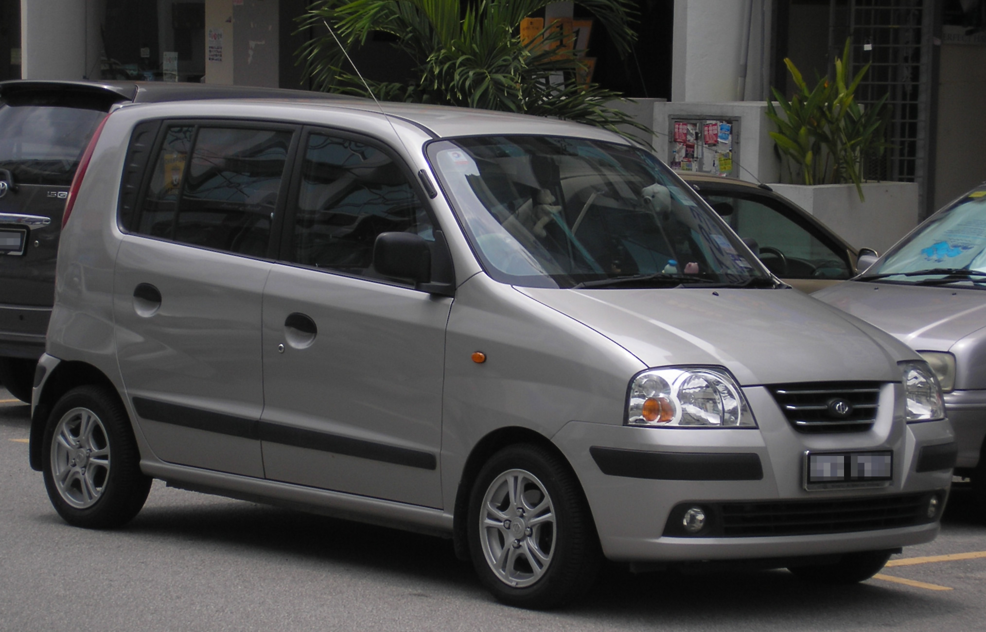 Front-side shot of a first generation Inokom Atos Prima, essentially a rebadged Hyundai Atos Prime, in Serdang, Selangor, Malaysia.